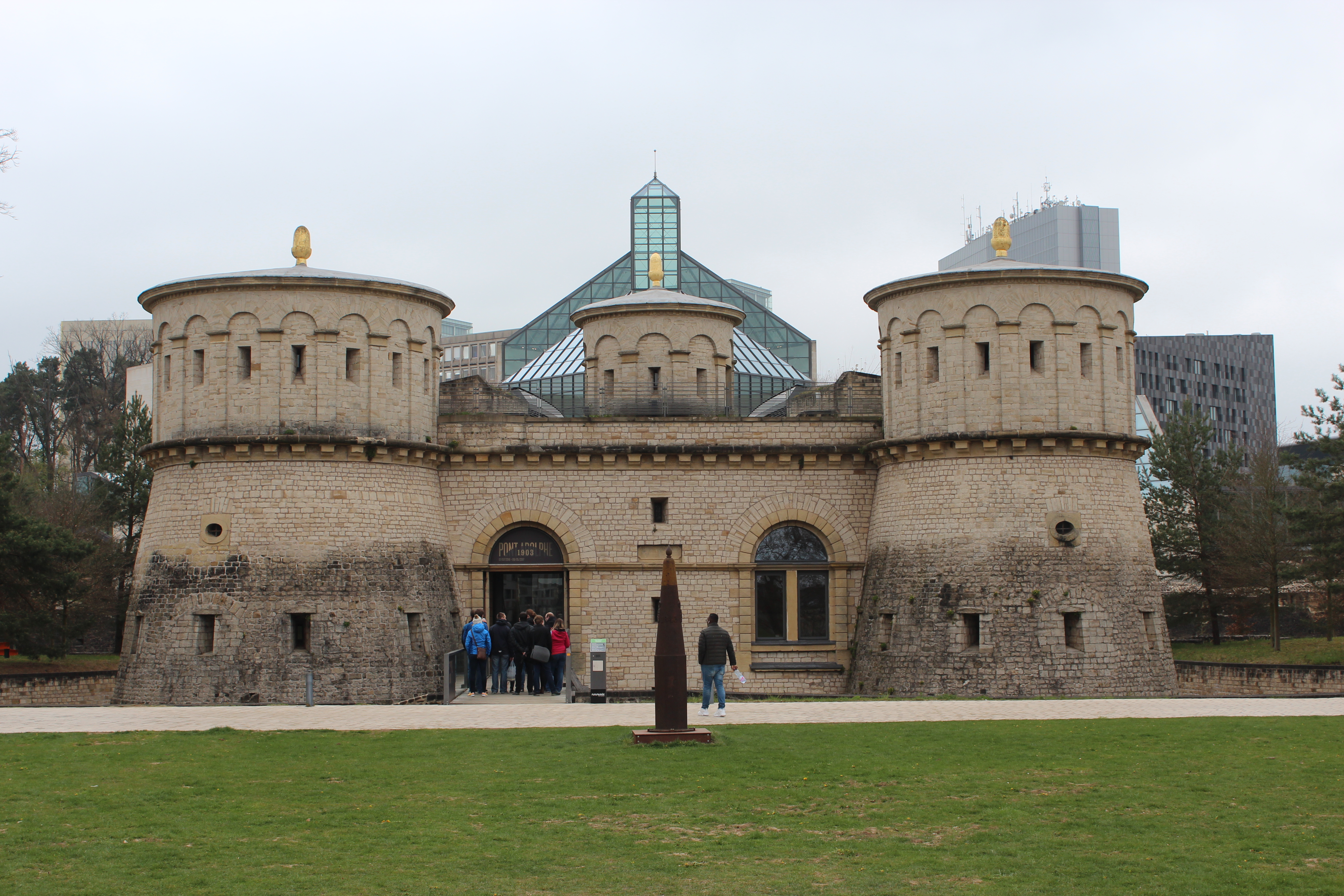 Fort Thüngen - Musée Dräi Eechelen in Luxembourg City.